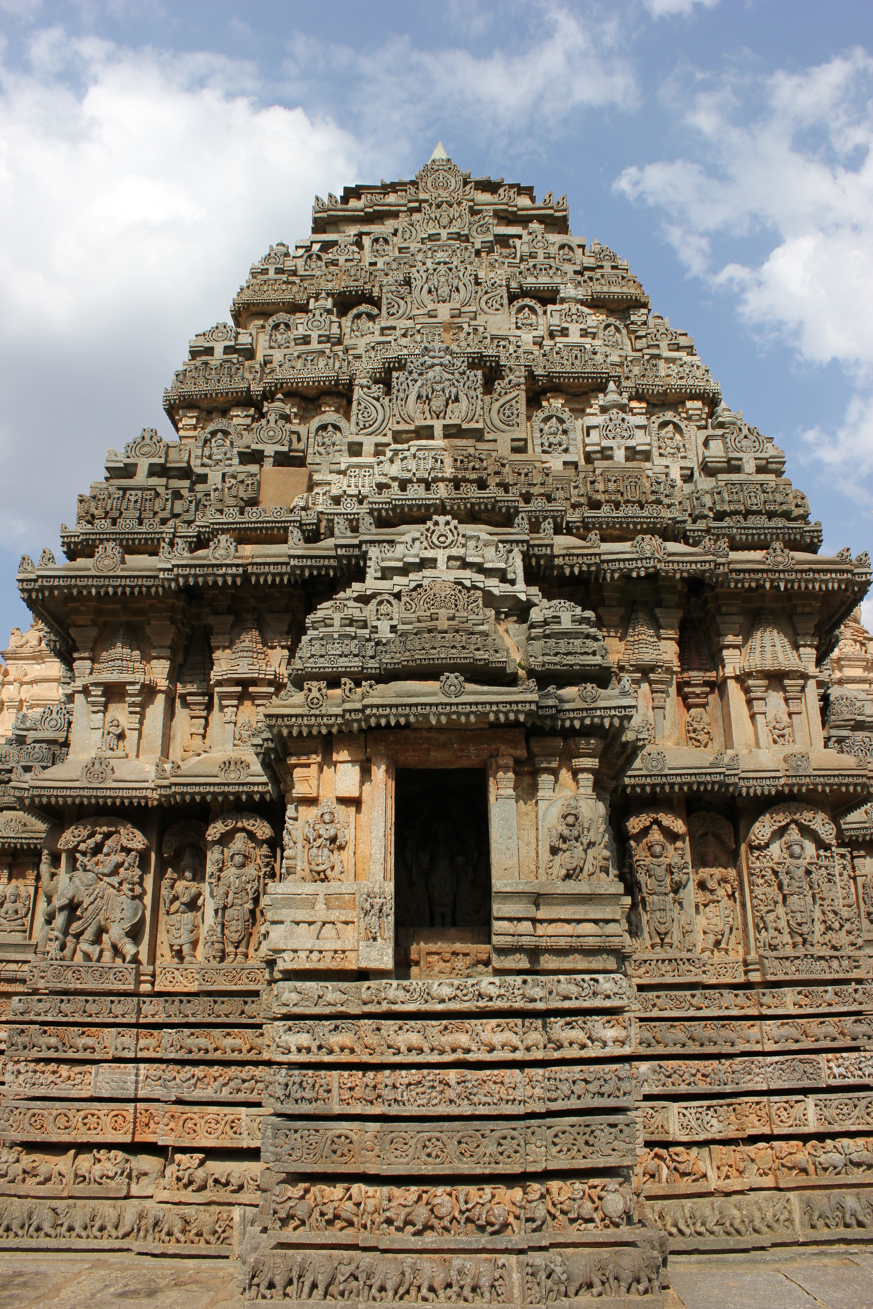 This photo was taken by me (Dinesh Kannambadi) at the Lakshmi Narasimha temple in Nuggehalli, Hassan district, Karnataka state, India. It was built in 1246 CE during the rule of the Hoysala Empire King Vira Someshwara.